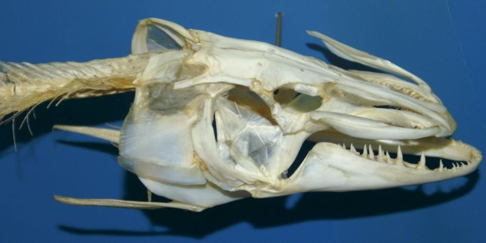 Photo by David Stang. First published at